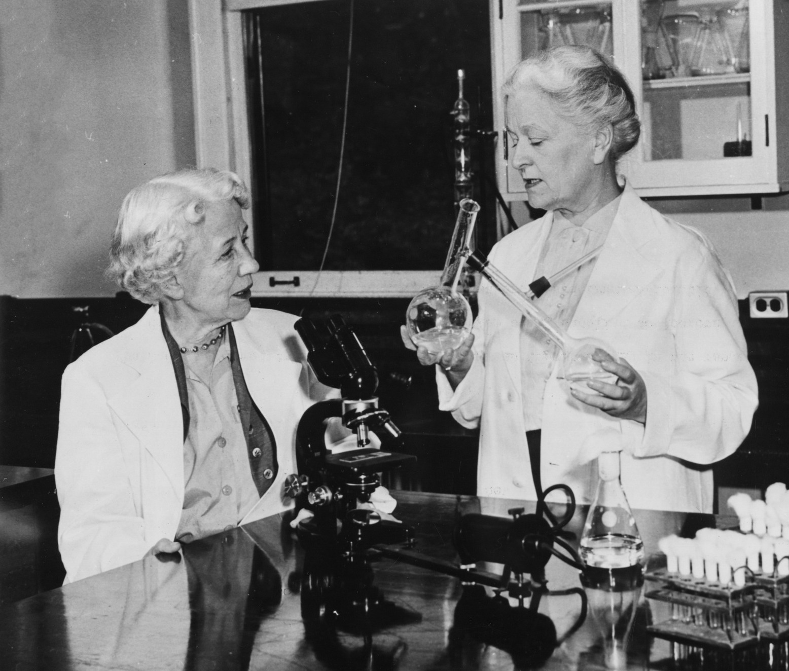 Elizabeth Lee Hazen (1888-1975) and Rachel Brown (1898-1980) Date: 10/28/1955 Local number: SIA Acc. 90-105 [SIA-SIA2008-3566] Summary: In 1950, microbiologist Elizabeth Lee Hazen (1888-1975) and chemist Rachel Brown (1898-1980), Division of Laboratories and Research, New York State Department of Health, Albany, developed an effective antifungal agent (nystatin) for yeast infections. This photograph was distributed in 1955 when Hazen and Brown were given the first Squibb Award for achievements in chemotherapy. Cite as: Acc. 90-105 - Science Service, Records, 1920s-1970s, Smithsonian Institution Archives Persistent URL: [1]